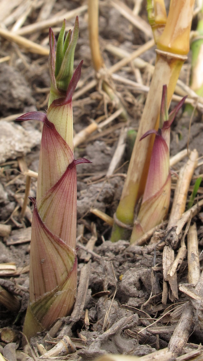 bamboo shoot, phyllostachys aureosulcata 'Lama Temple', two year old division